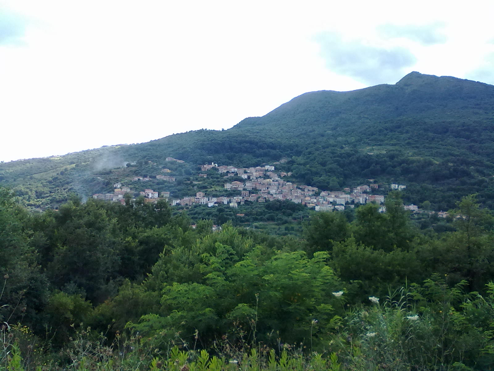 View of Alfano